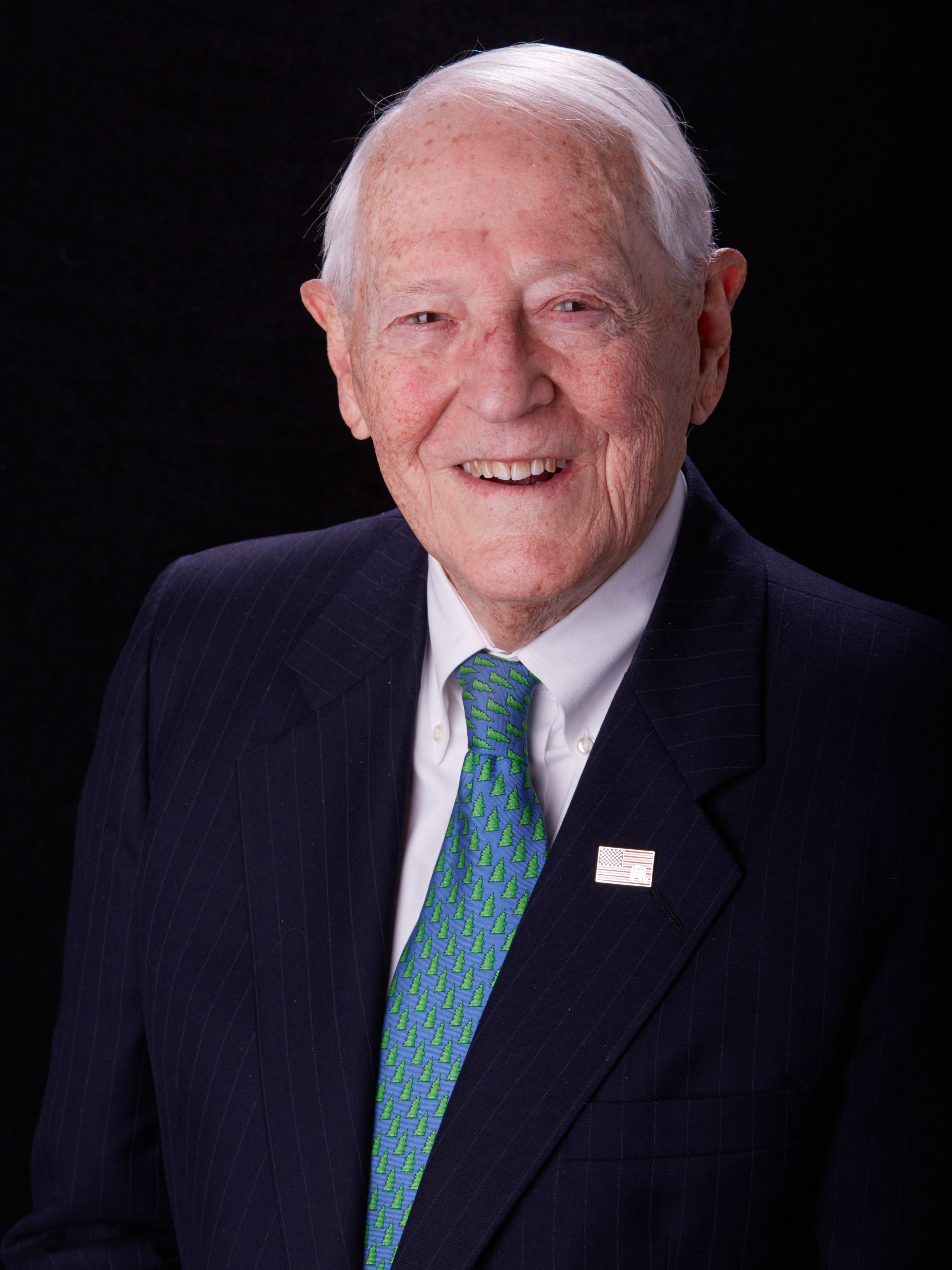 Most Recent Photo of Mr. Charles J Urstadt, via Urstadt Biddle Properties Inc. Website.